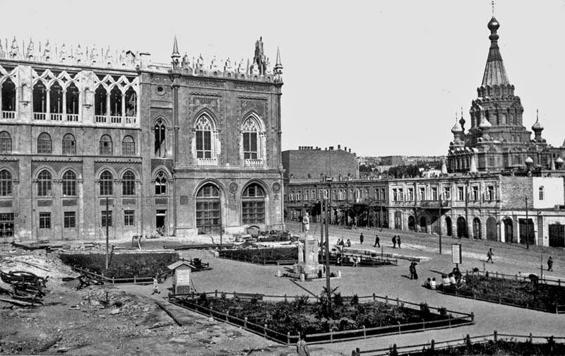 Sabir Garden